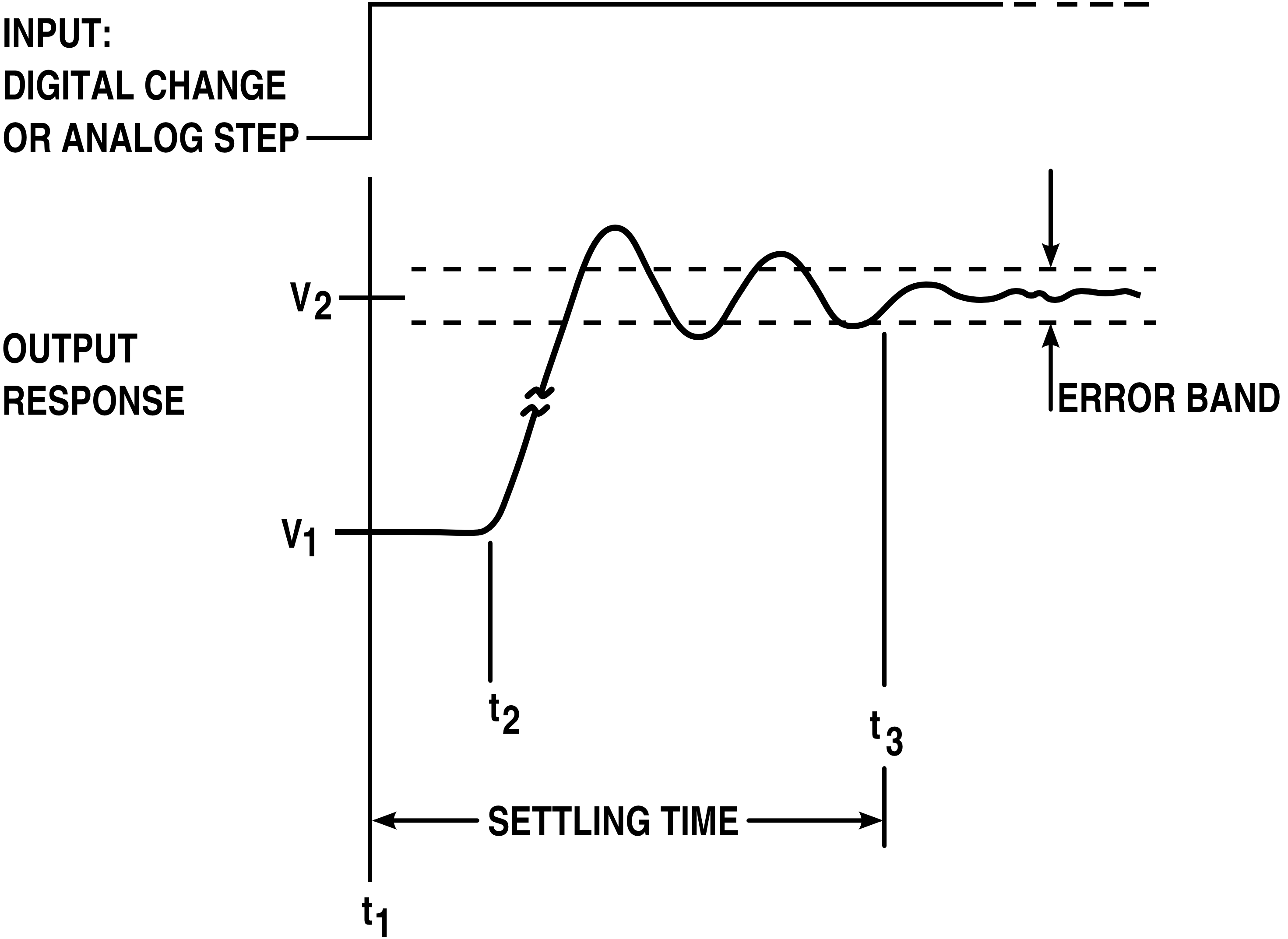 Figure 1 from "High accuracy settling time measurements"